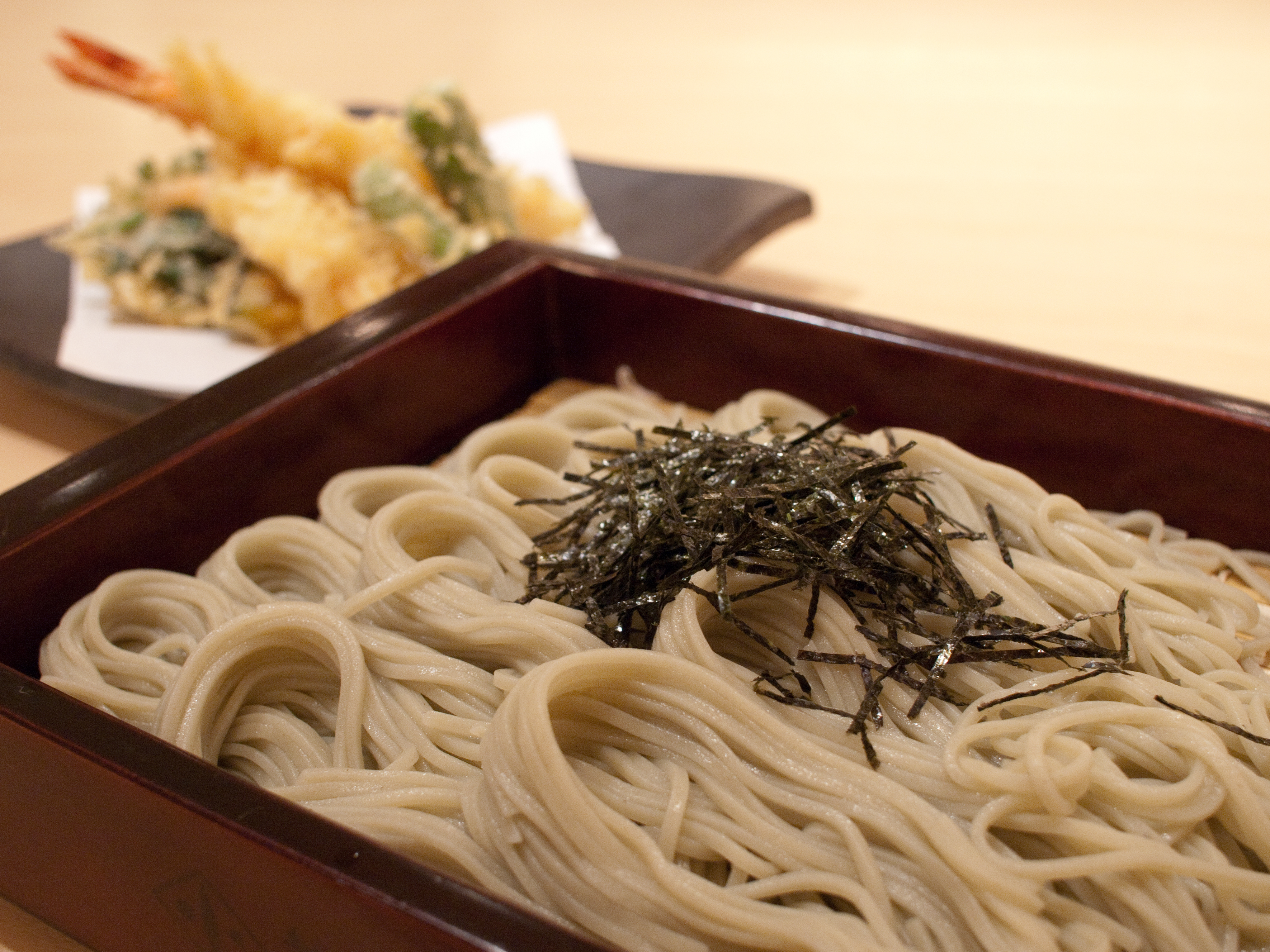 Hegi soba, Kojima-ya, Niigata station